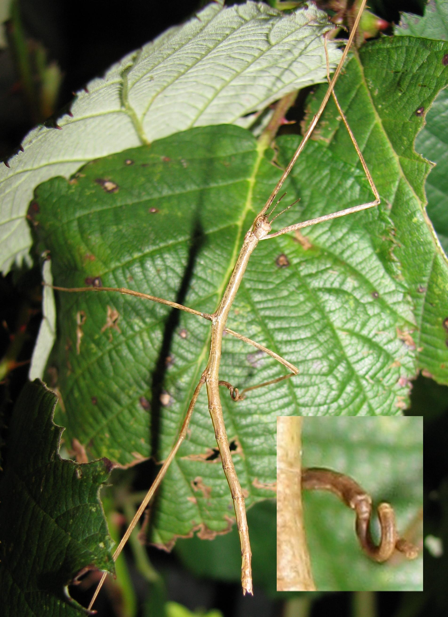 Regeneration of the right back leg of an L 2 larva of Phobaeticus serratipes